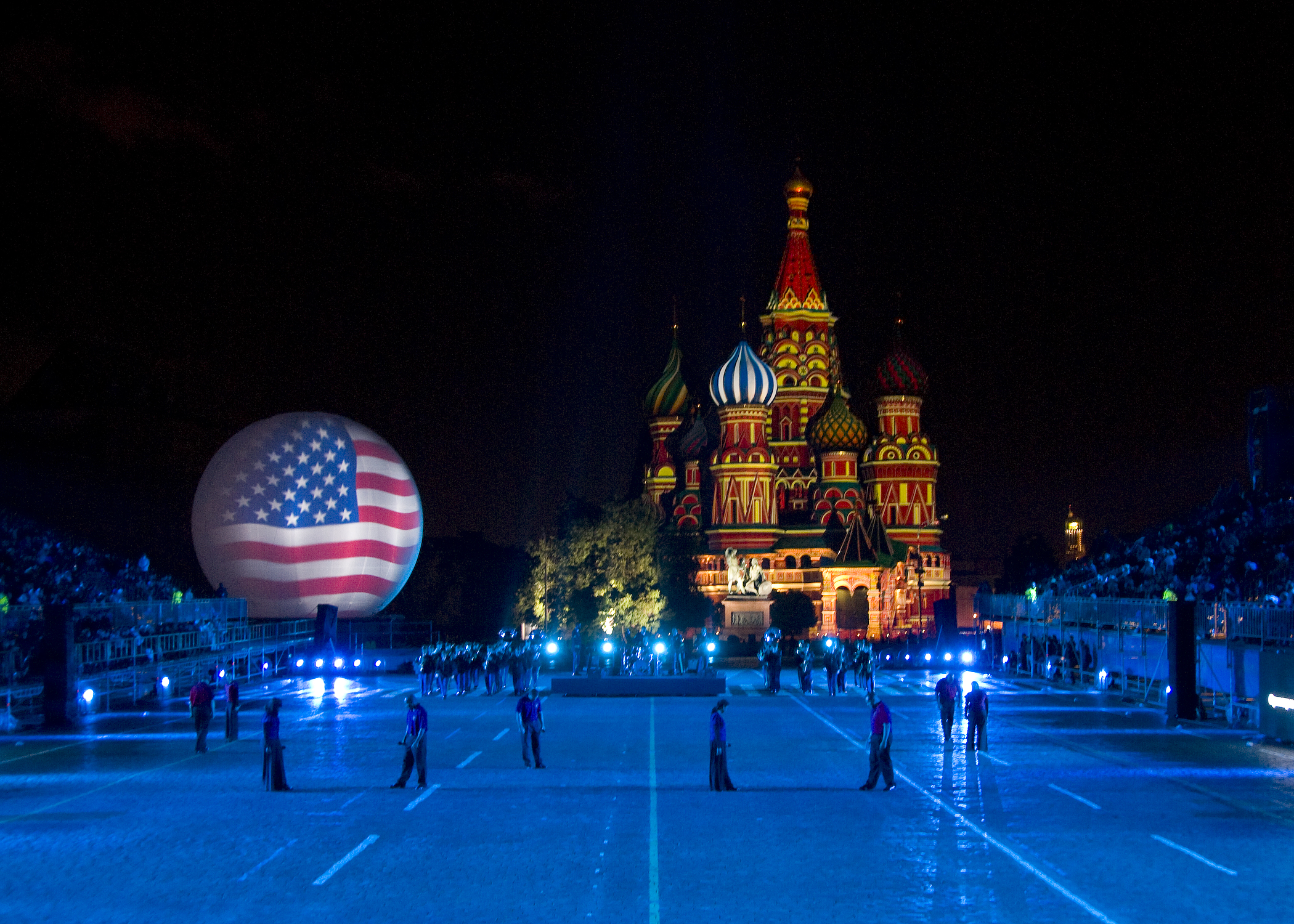 The US Army Europe Band and Chorus perform on Red Square in Moscow. The band and chorus, along with bands and performers from 9 other countries, are all participating in “Spasskaya Tower”, the annual military music festival held in Moscow. This is the first time in history that the US Army Europe Band and Chorus have performed in Red Square. Five years ago they performed at the Kremlin, but never before here in Red Square with the magnificent St Basil’s Cathedral as their backdrop setting.